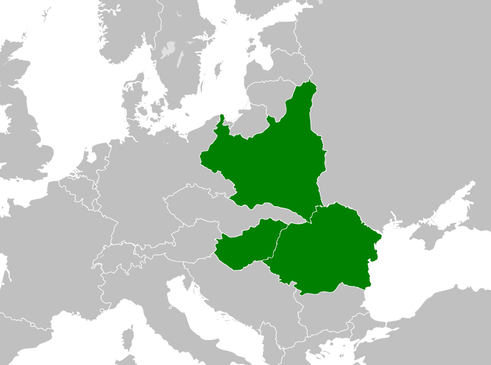 The Third Europe plan was a revision of the Intermarium plan by Józef Piłsudski. It was to include the countries of Poland, Hungary and Romania